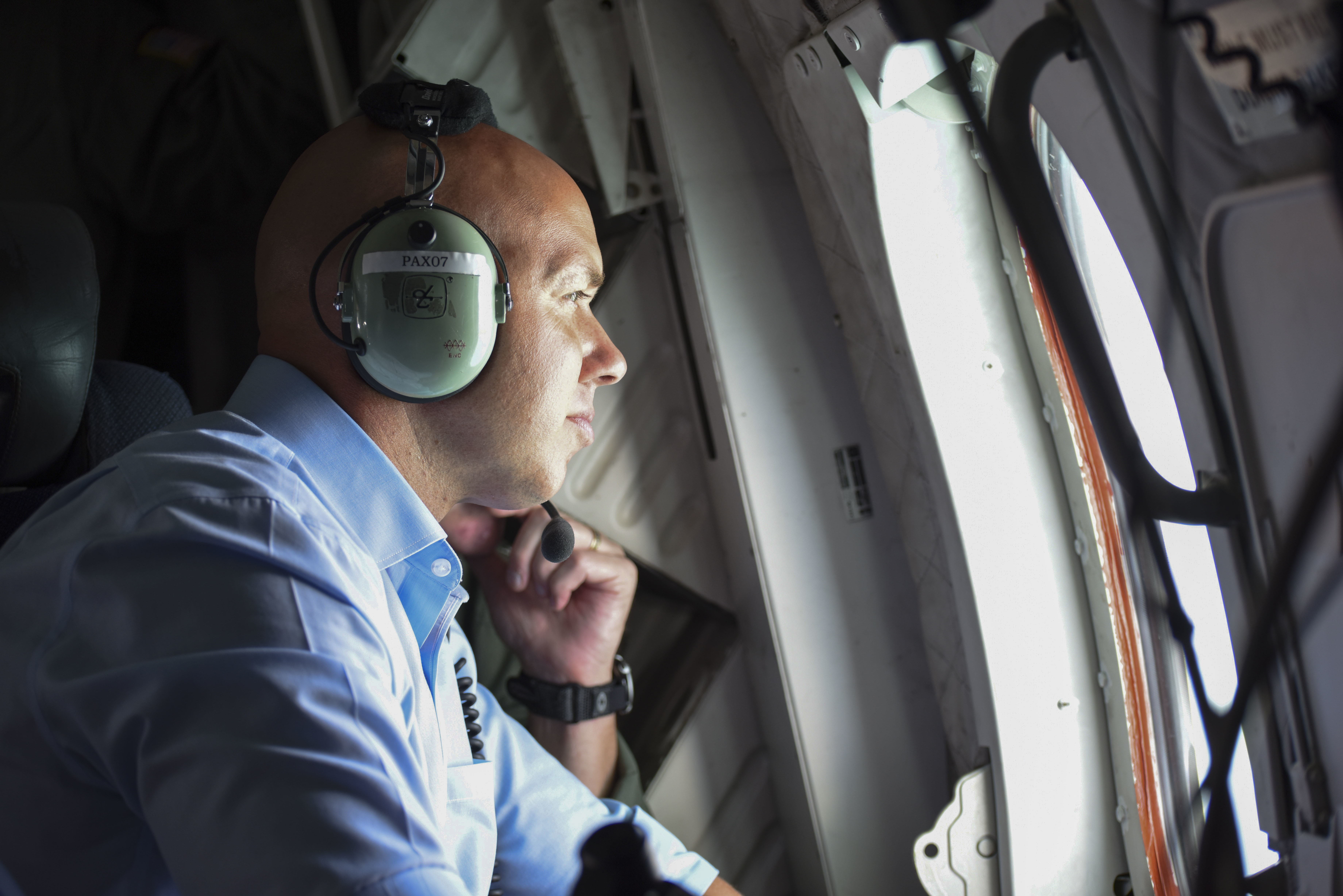 Eighteenth District of Florida Representative, Brian Mast, looks out the window of a Coast Guard Air Station Miami HC-144 Ocean Sentry aircraft off the coast of Palm Beach, Fla., Sept. 12, 2017. Mast flew with the Coast Guard for an overflight assesment of south Florida following Hurricane Irma. U.S. Coast Guard photo by Petty Officer 1st Class Mark Barney. Unit: U.S. Coast Guard District 7 DVIDS Tags: Miami; Florida; Coast Guard; Congressman; Hurricane Irma; Irma